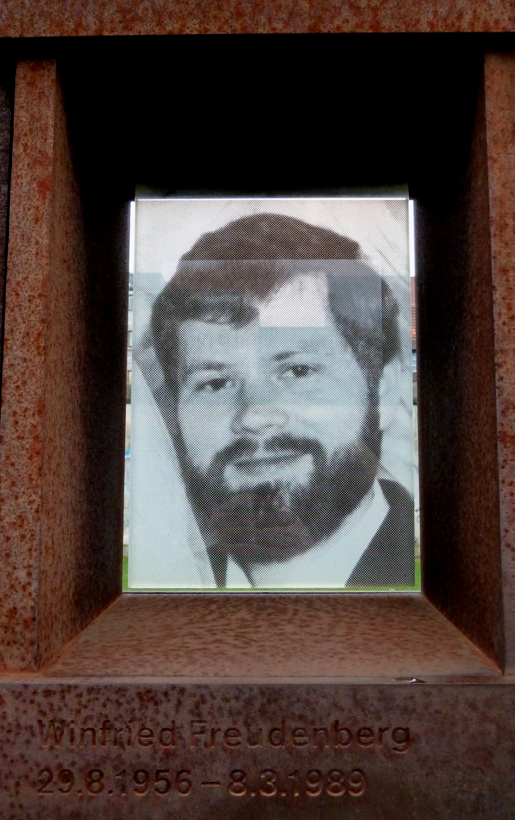 WInfield Freudenberg (last fatality at the Berlin Wall) at the Wall of Rememberance